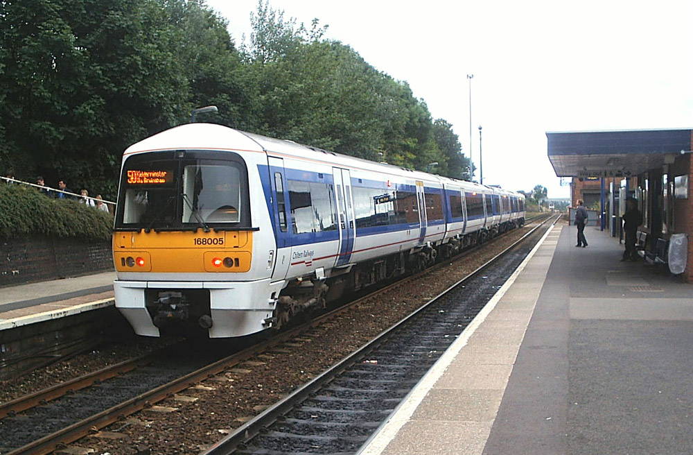 A Chiltern Railways Class 168 "Clubman" train terminates at Kidderminster station.